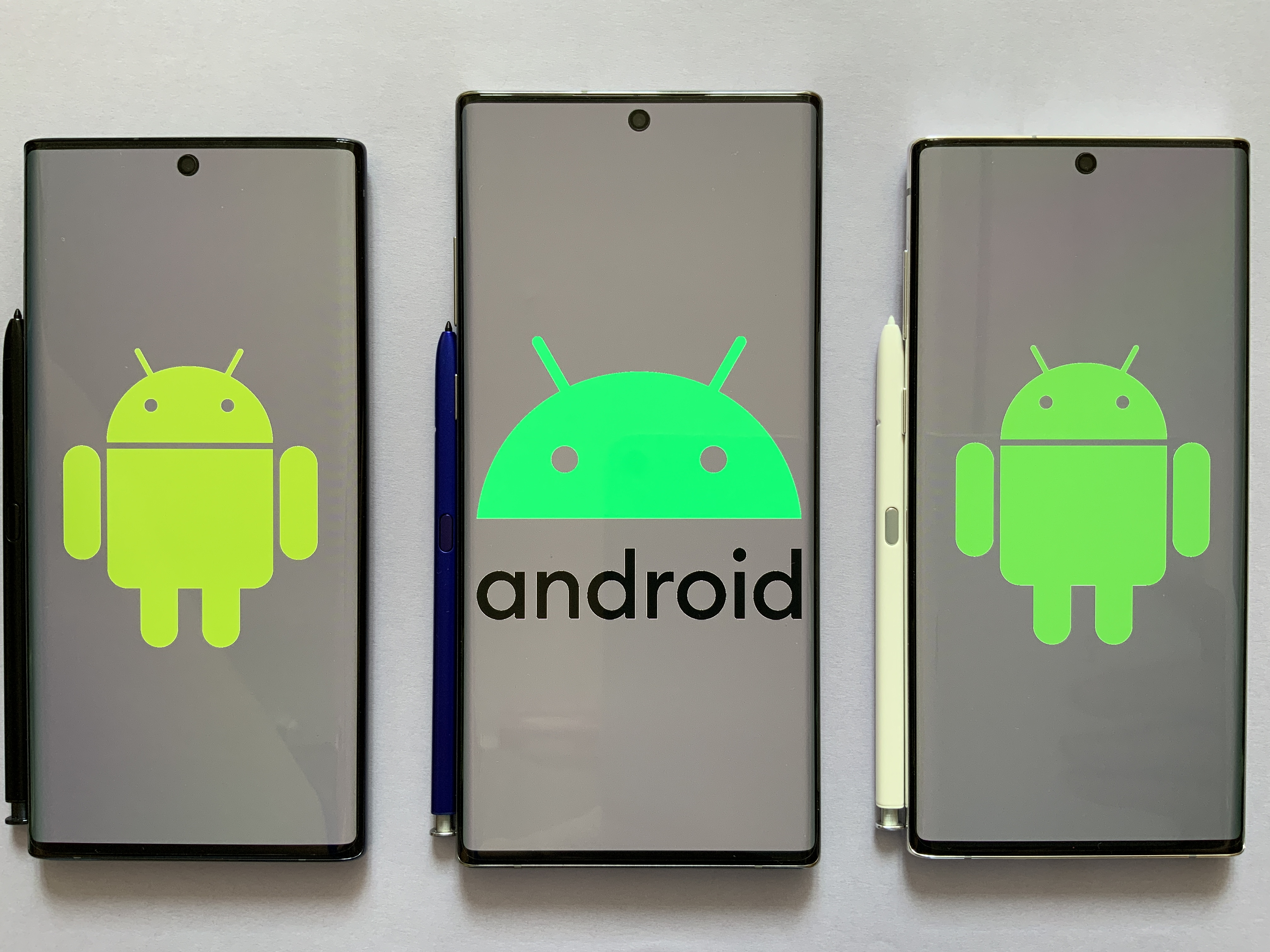 Android OS logos shown on Samsung Galaxy Note 10 and Galaxy Note 10+ smartphones